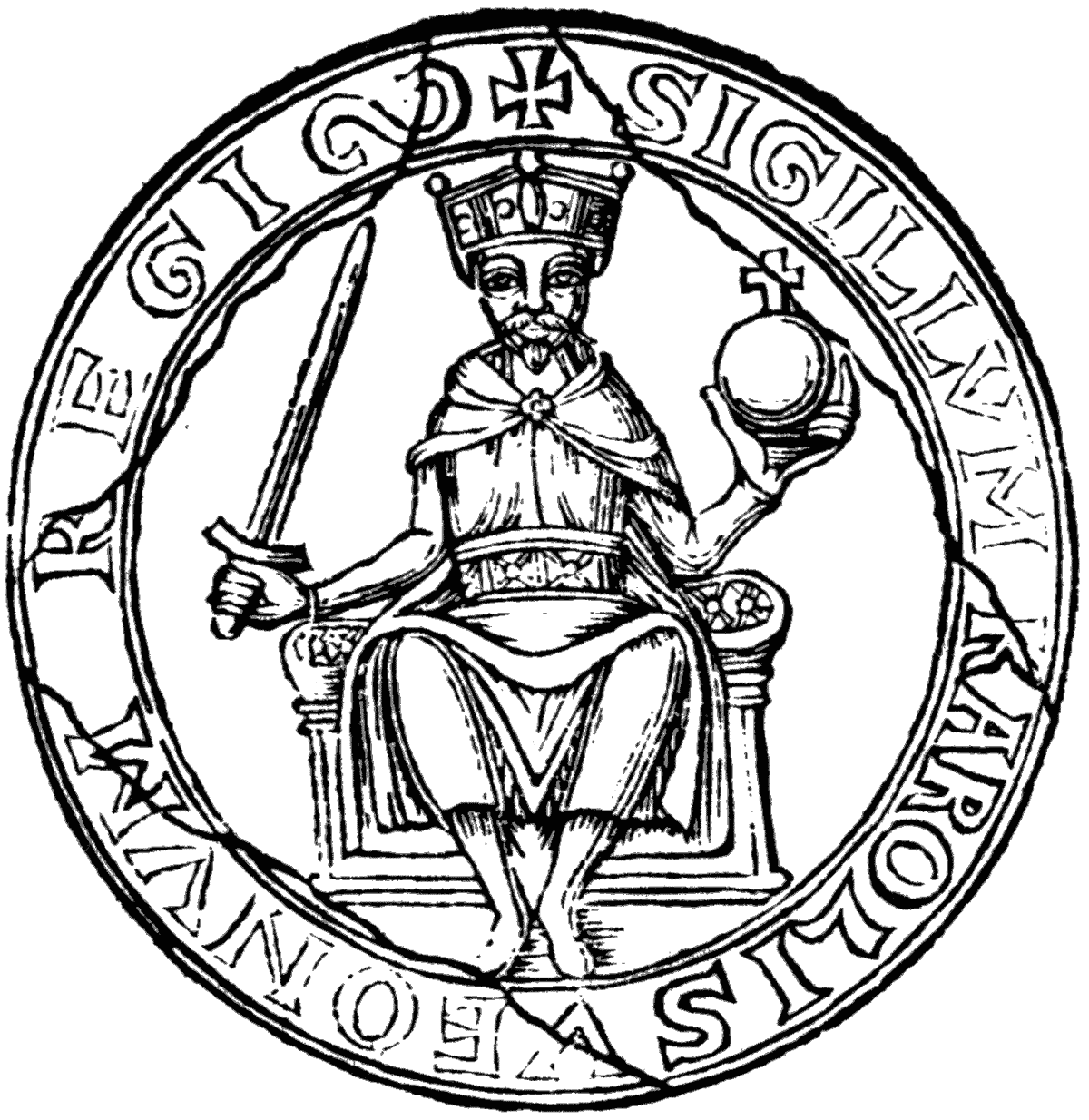 King Karl Sverkersson's of Sweden seal[1]